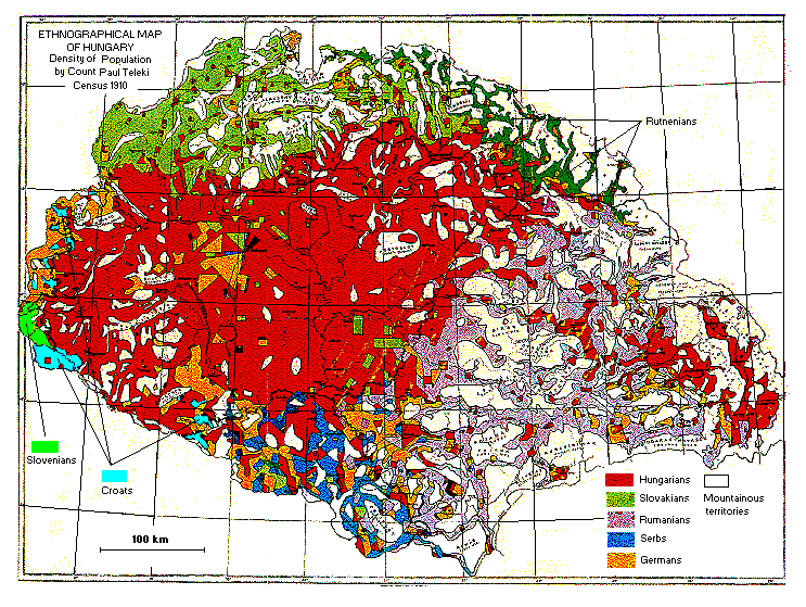 Pál Teleki: Ethnographical map of Hungary (1910)